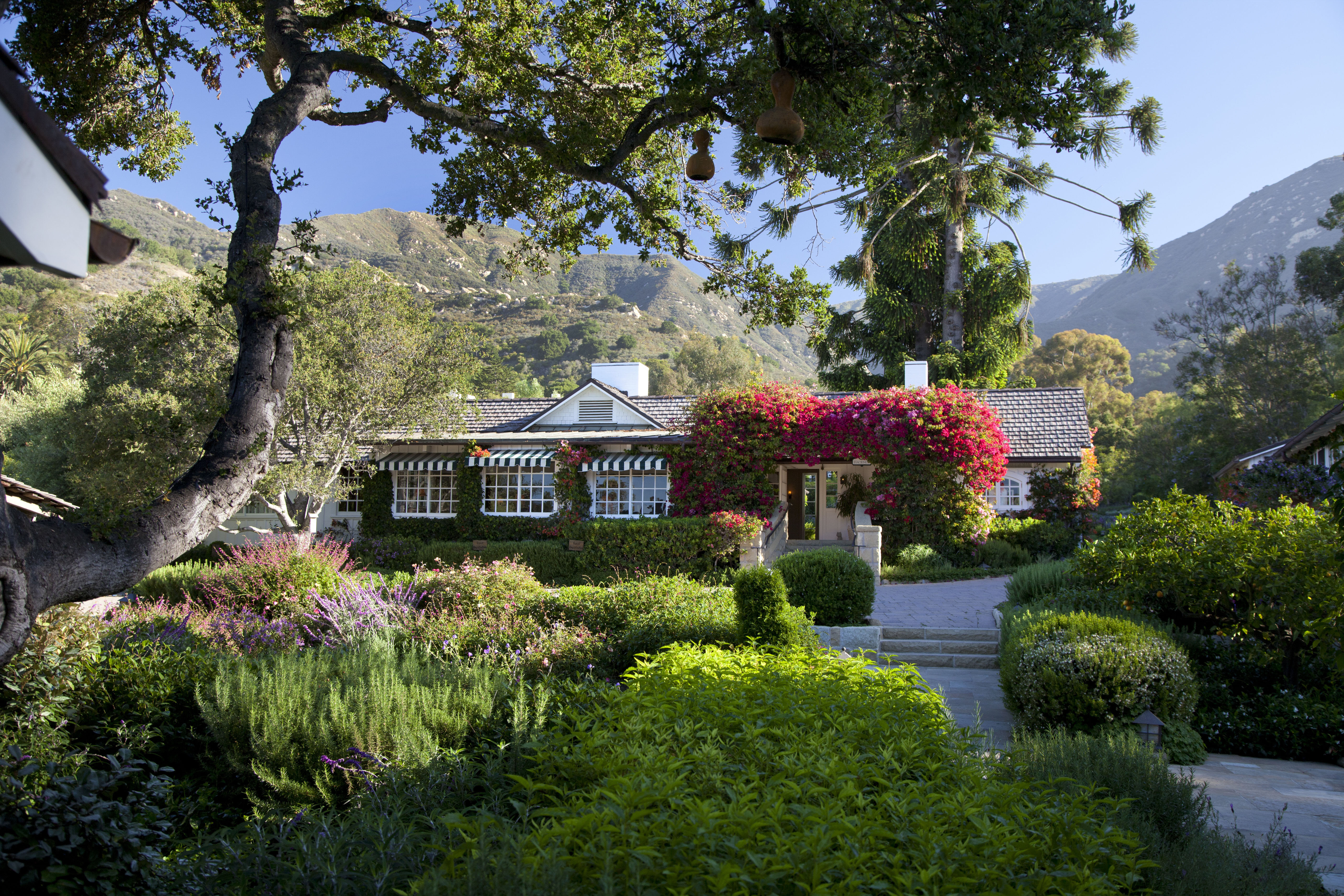 Hacienda at the San Ysidro Ranch